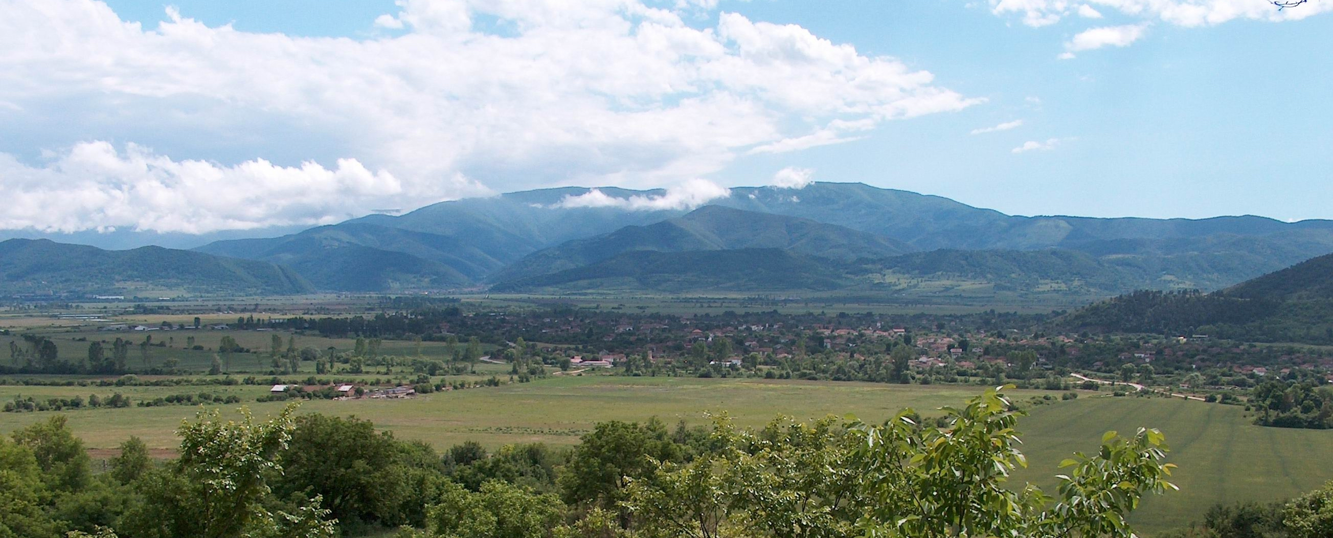 Bulgarian village Skravena - general view